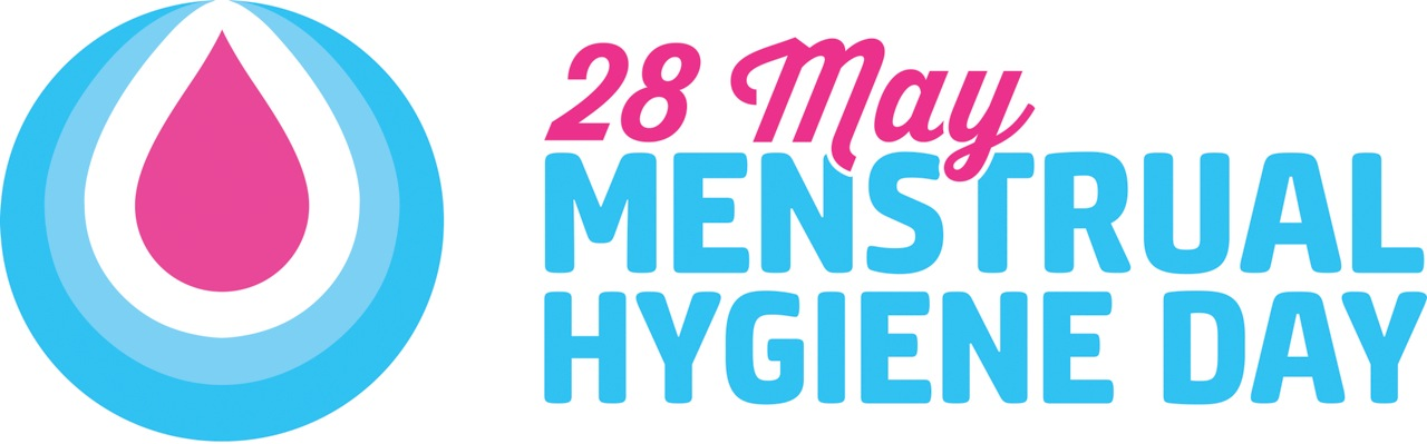 Logo for Menstrual Hygiene Day